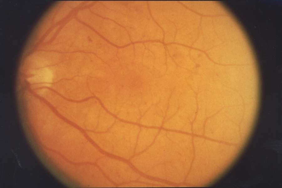 In background retinopathy Description: In background retinopathy, a slight deterioration in the small blood vessels of the retina, portions of the vessels may swell and leak fluid into the surrounding retinal tissue. Credit: National Eye Institute, National Institutes of Health Ref#: EDA03